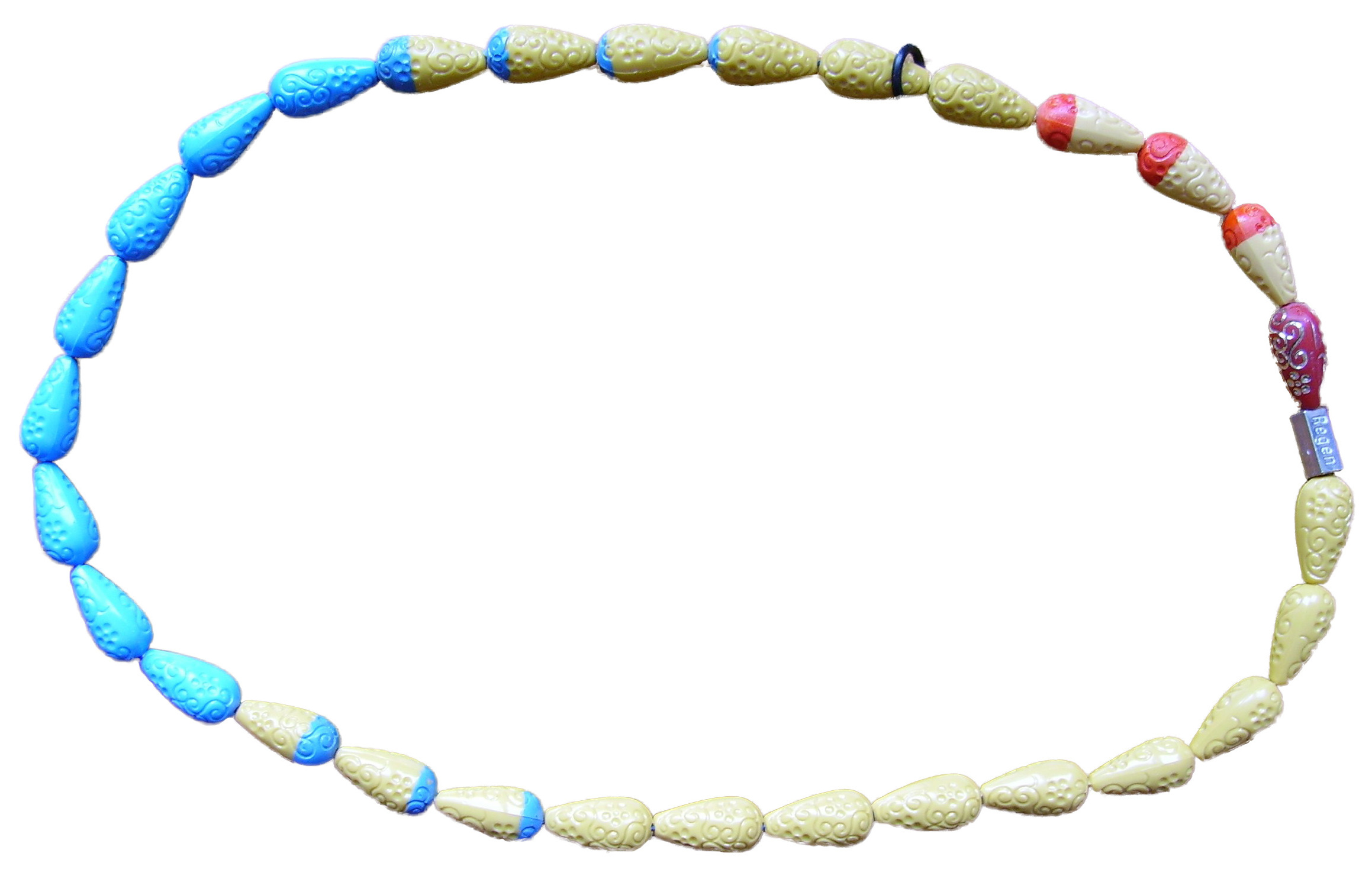 Birth control chain